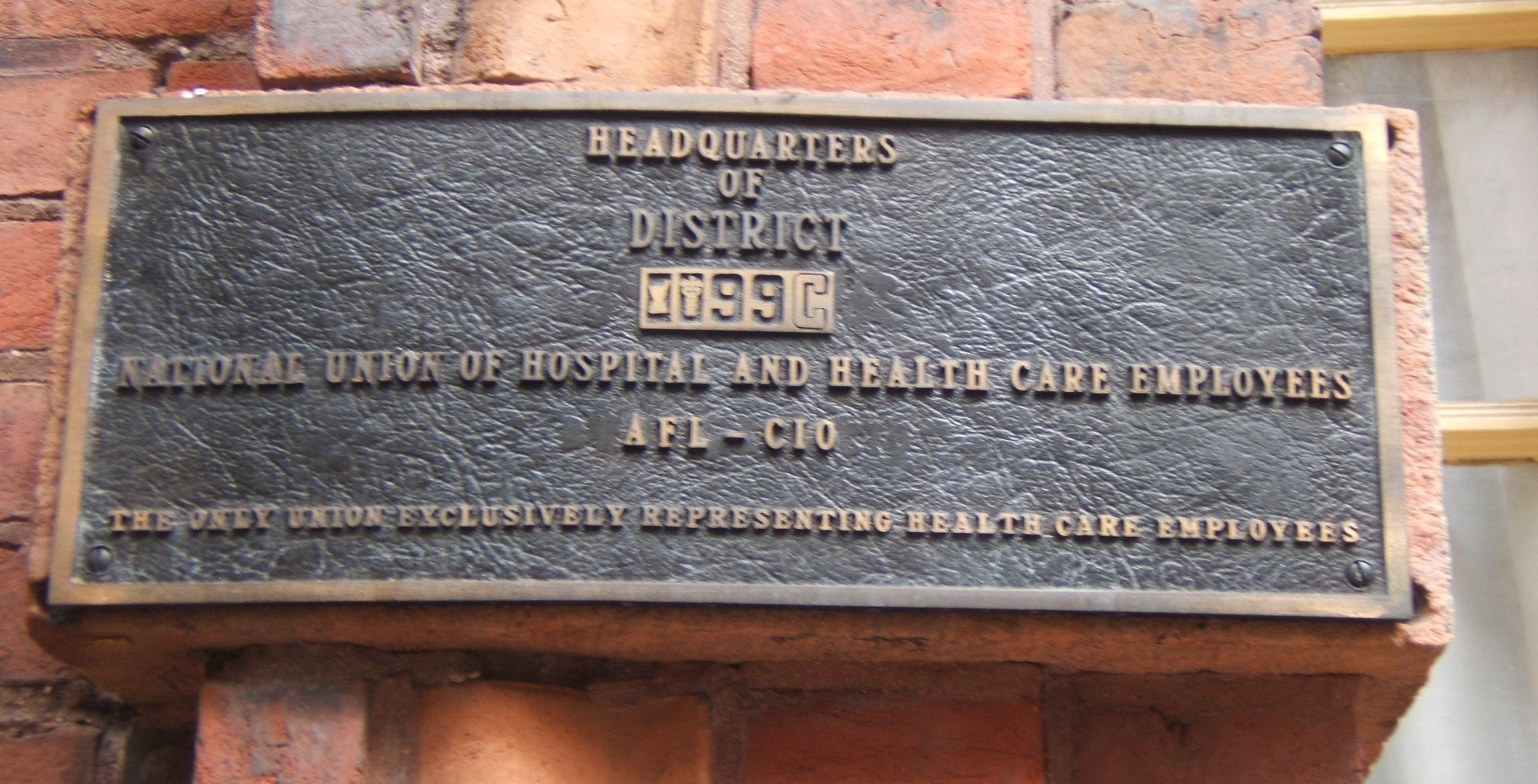 Home of Joseph Leidy, Jr., M.D. (not to be confused with Joseph Leidy, the paleontologist), Poor Richard Club, and now Headquarters, District 1199C of the National Union of Hospital and Health Care Workers, and listed on National Register of Historic Places. Architect Wilson Eyre, Jr., 1895. At 1319 Locust Street, Philadelphia, PA 19107.